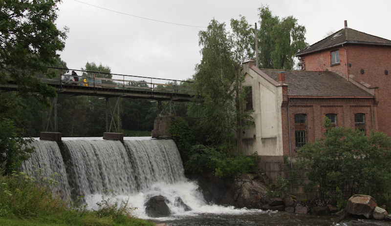 Brekkefossen, Brekke/Kjelsås, Oslo, Norway